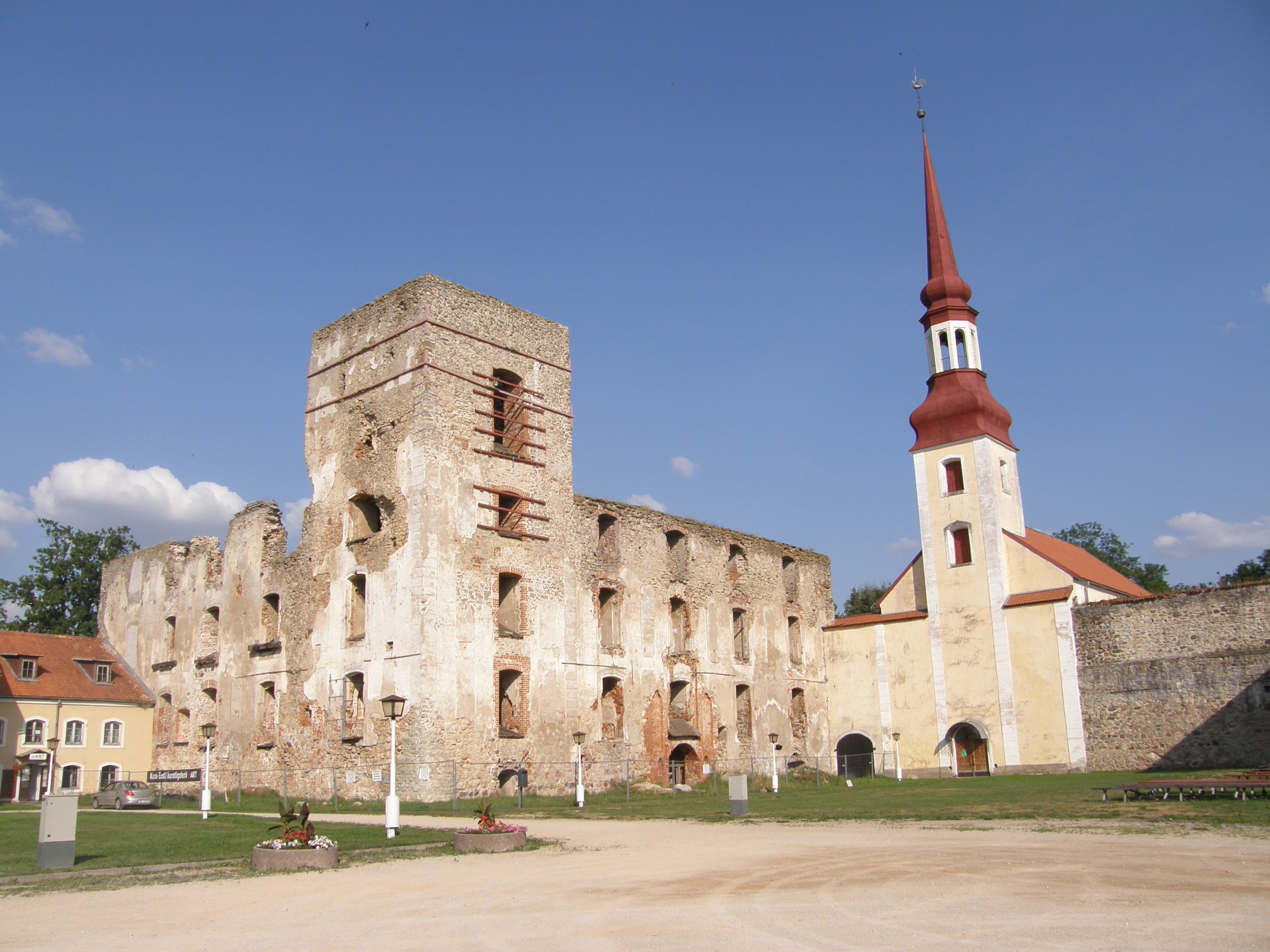 Põltsamaa castle and church.